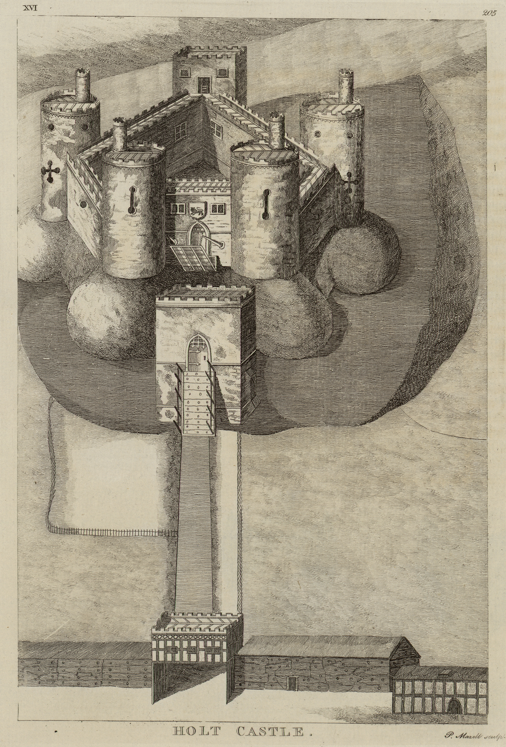 An image from a set of 8 extra-illustrated volumes of A tour in Wales by Thomas Pennant (1726-1798) that chronicle the three journeys he made through Wales between 1773 and 1776. These volumes are unique because they were compiled for Pennant's own library at Downing. This edition was produced in 1781. The volumes include a number of original drawings by Moses Griffiths, Ingleby and other well known artists of the period. Thomas Pennant (1726-1798)